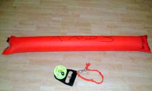 surface marker buoy I took this photo